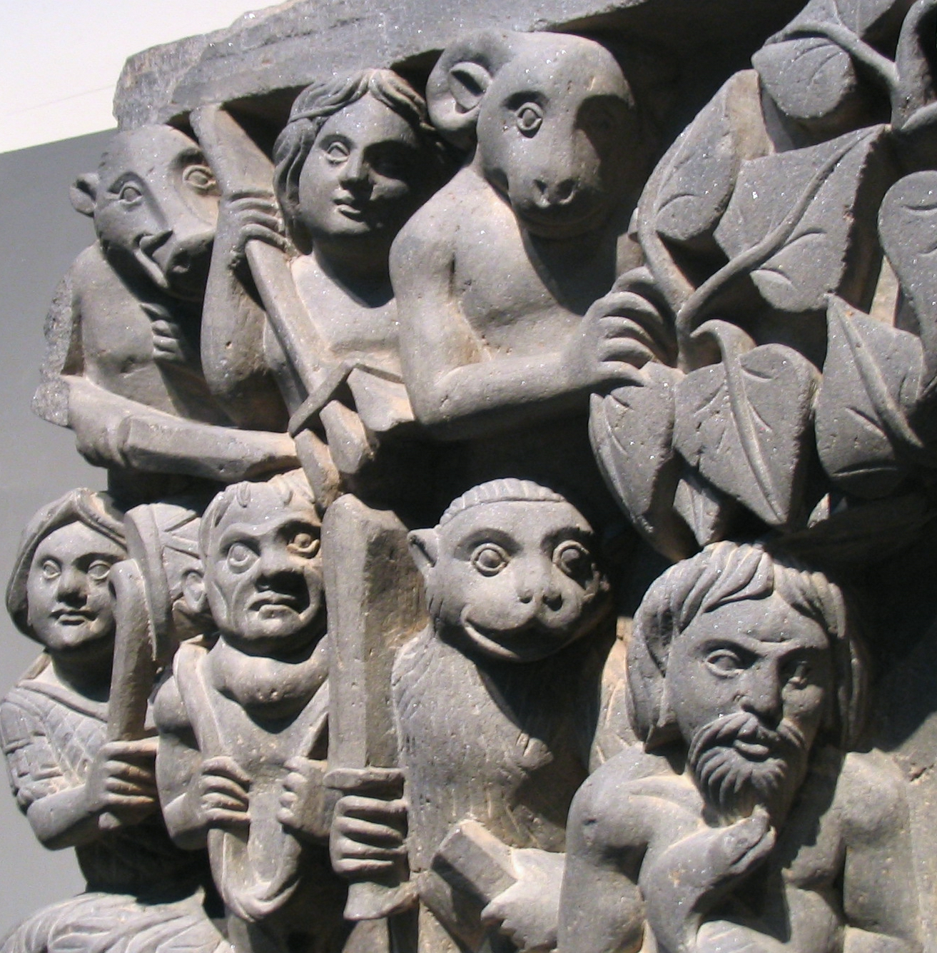 Four Scenes From The Life Of The Buddha. A large rock stupa from ancient Gandhara (present-day Pakistan-Afghanistan), from the Kushan dynasty, late 2nd century or early 3rd century CE. On exhibit at the Sackler Gallery at the Smithsonian Institution.